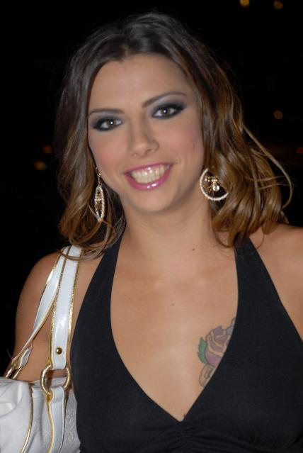 Carmen Minor at Wicked Pictures party, the House of Blues on Sunset Blvd, September 19, 2007.